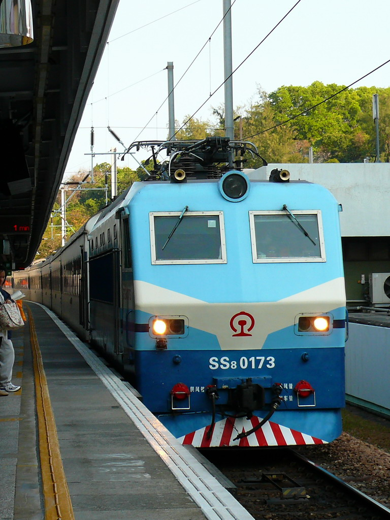 A Beijing-Kowloon through train passing through MTR Tai Po Market station, Hong Kong